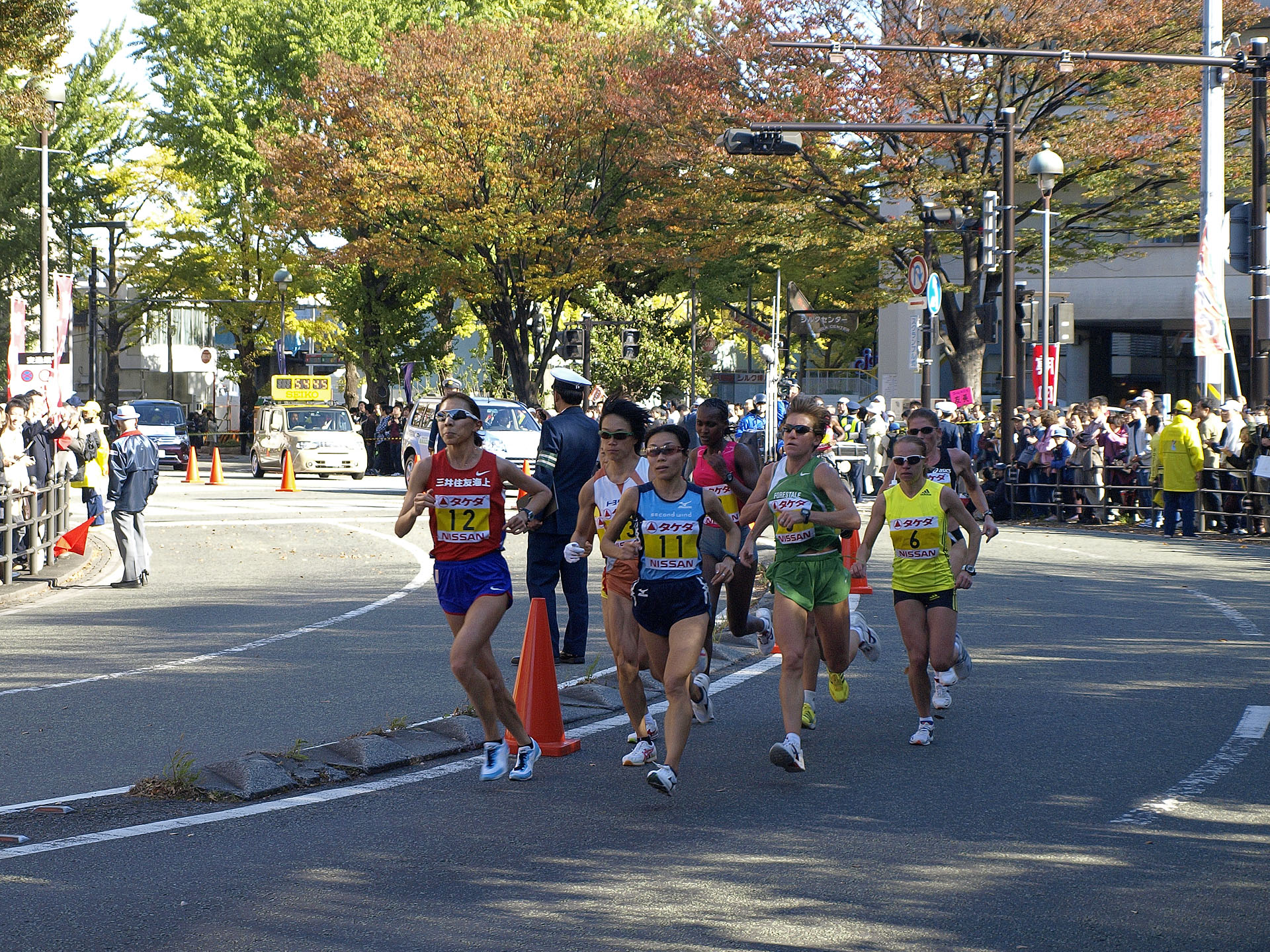 The leading runners of Yokohama Women's Marathon 2009 coming up to Kanagawa Prefectural Office.